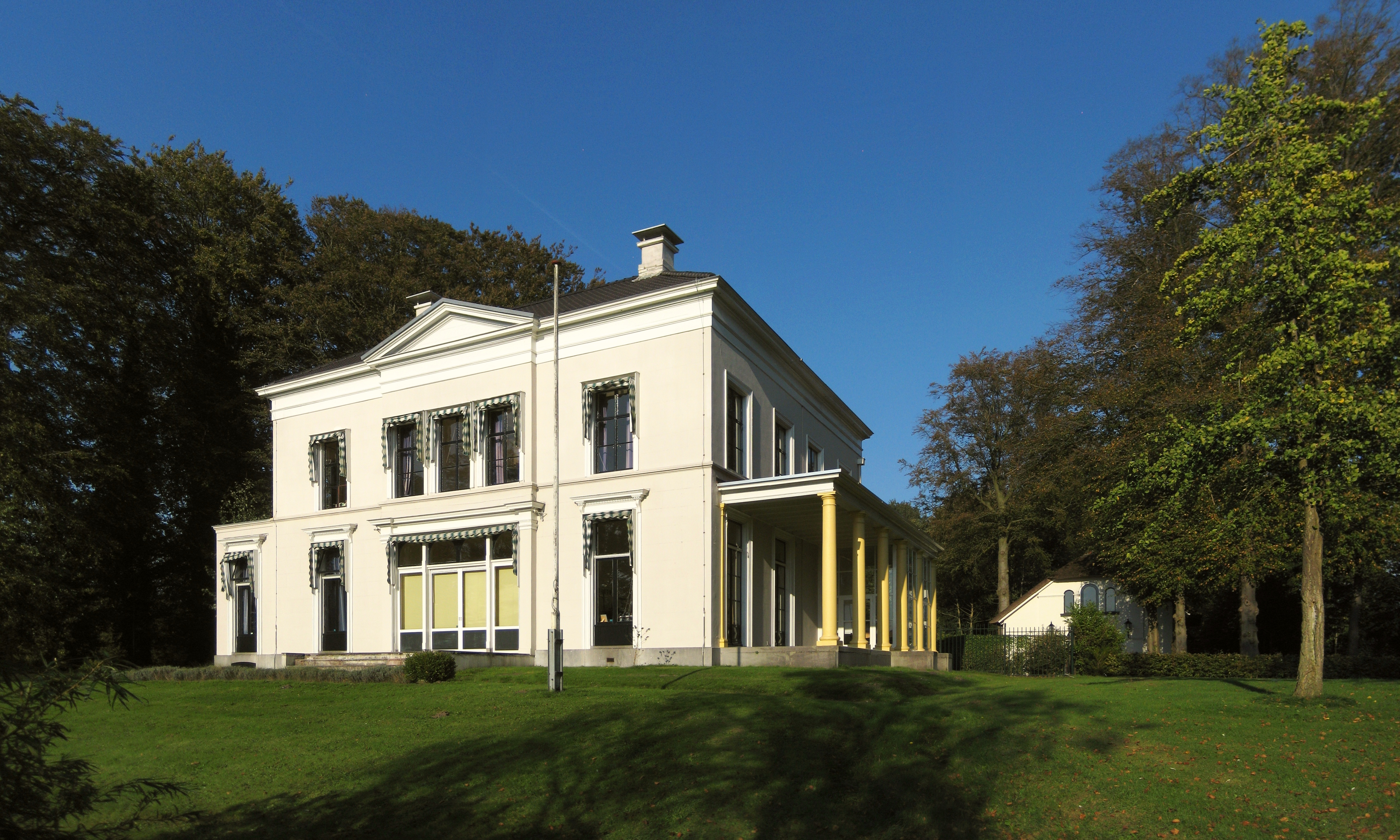 Villa Esserberg in Haren, a village in the Dutch province of Groningen.